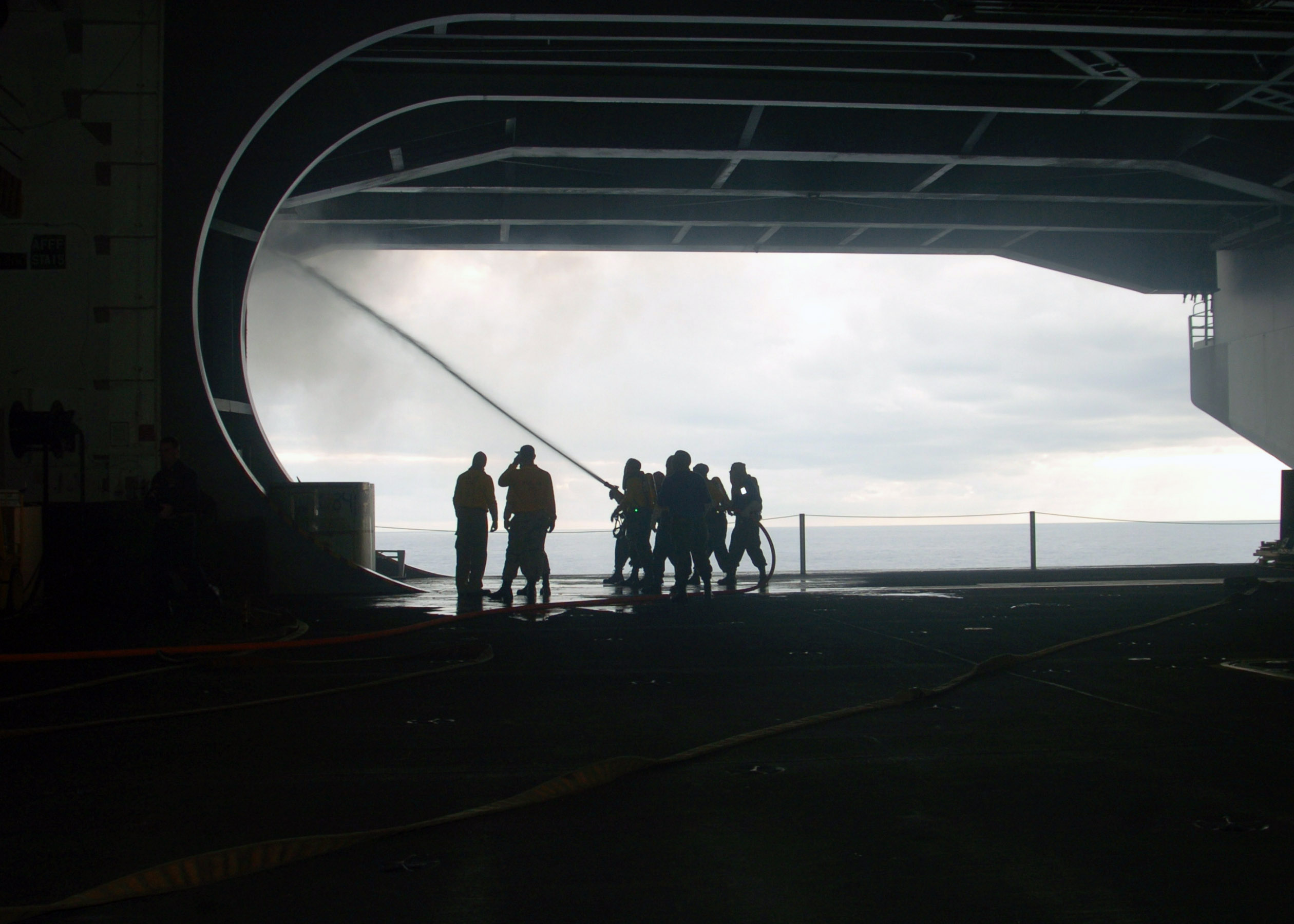 Sailors work to put out a fire from a position in Hangar Bay 3. PACIFIC (May 22, 2008) Sailors work to put out a fire from a position in Hangar Bay 3 aboard USS George Washington (CVN 73). The comprehensive firefighting effort extinguished all fires while limiting shipboard damage and preventing any serious injuries for the crew. The cause of the fire and the extent of the damage are currently under investigation as the ship continues on course for San Diego.